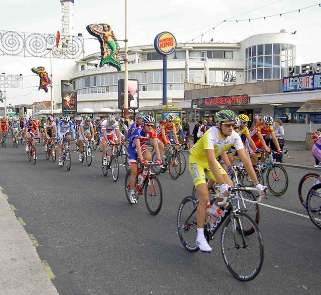 They're off